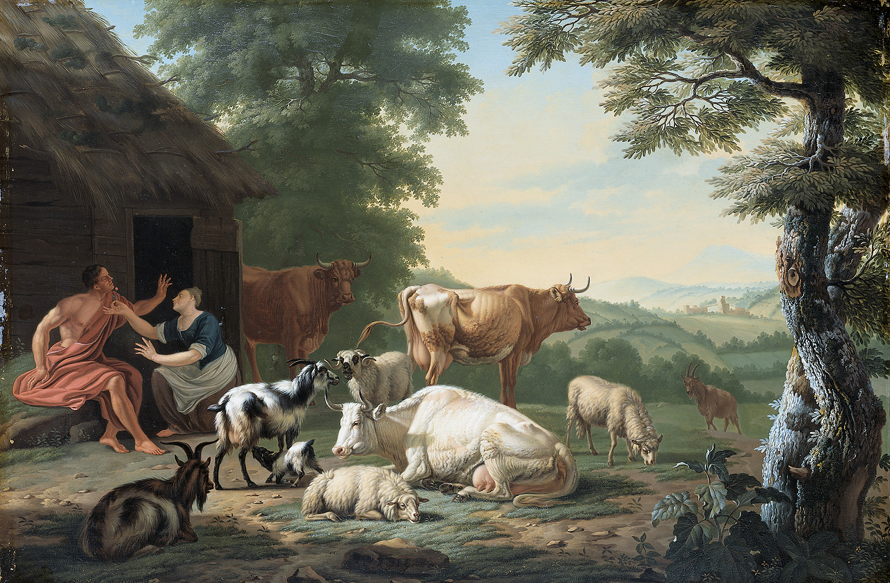 Arcadian landscape with shepherds and animals. At the door of a farm a kneeling women holds up a flower in front of the face of a sitting shepherd. To the right cows, sheep and goats. To the right also a hilly landscape.